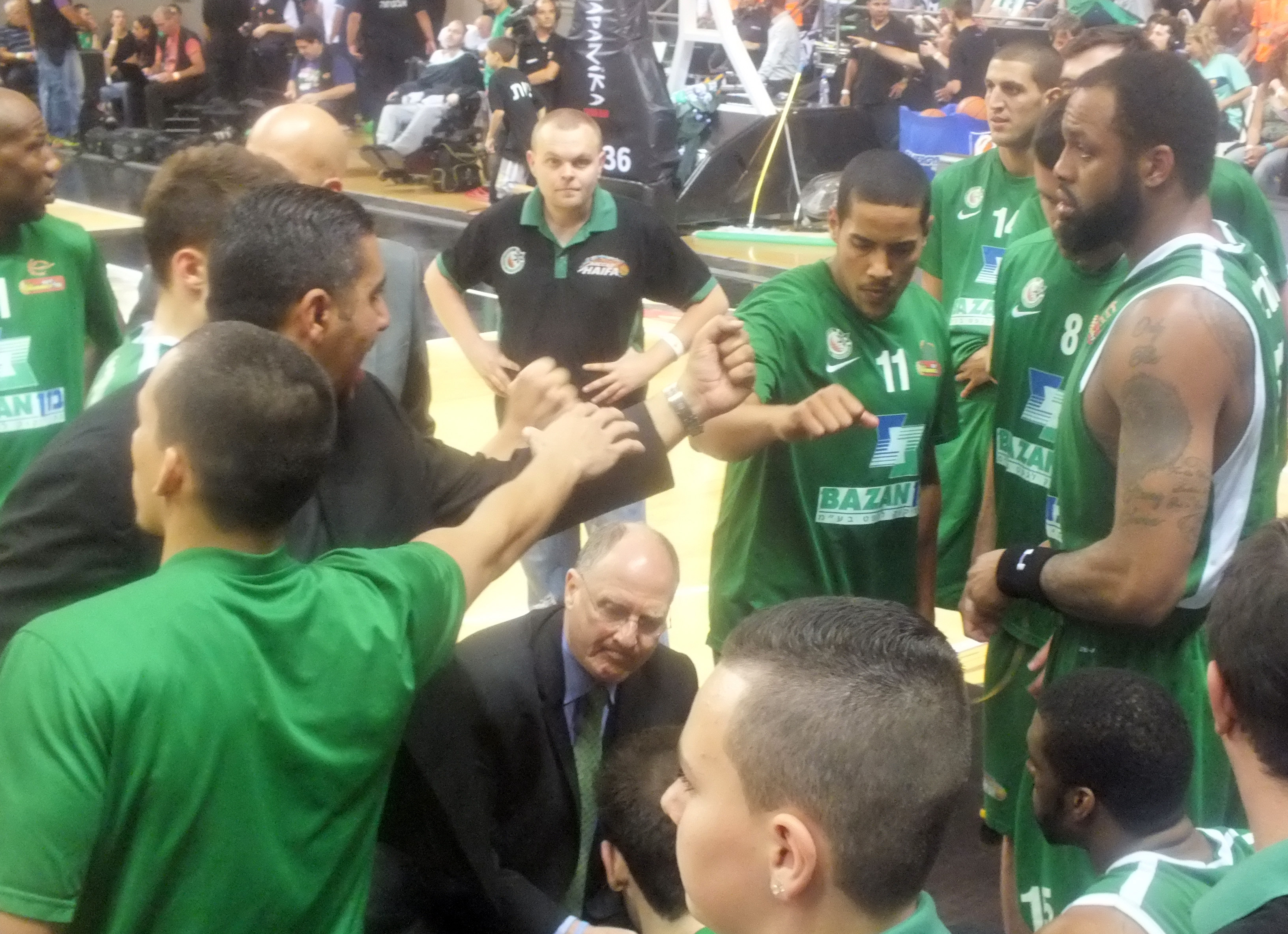 Cheering teamplayers of the Greens in the final match of the 2013 Season; coach Brad Greenberg is in the middle.